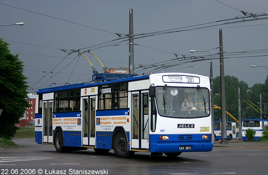 Polish trolleybus Jelcz 120MT shot at węzeł Franciszki Cegielskiej in Gdynia. Year built 1997.